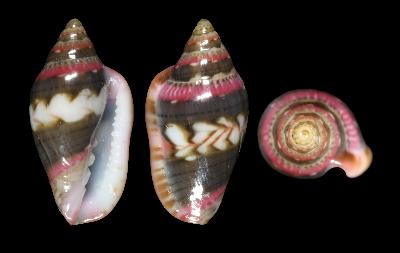 Marginella britoi Rolán & Gori, 2014 ; family Marginellidae; Sao Tome & Principe